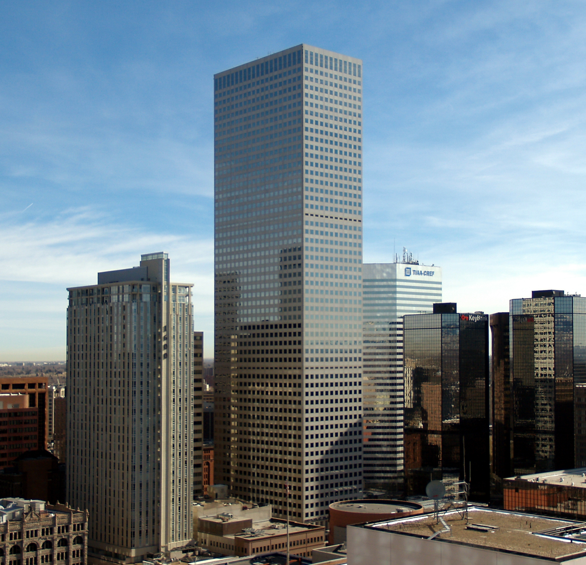 Republic Plaza in Denver, Colorado.